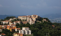 View of the hill and the village of Castel Ruggero